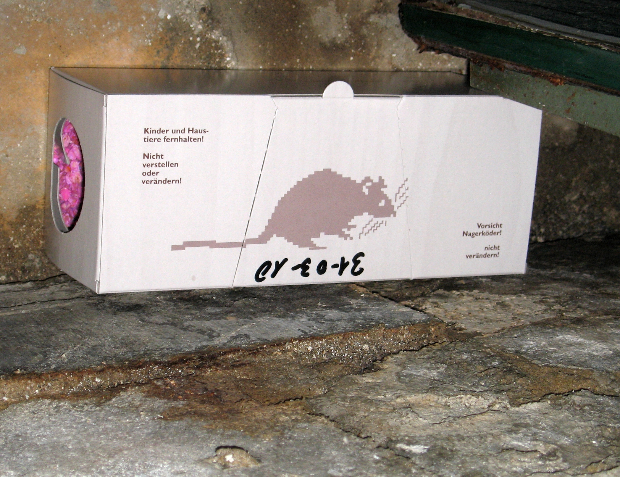 Cardboard box with rat poison bait